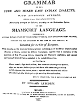 The photo of the two-dimensional cover of the grammar authored by Gerasim Lebedev.